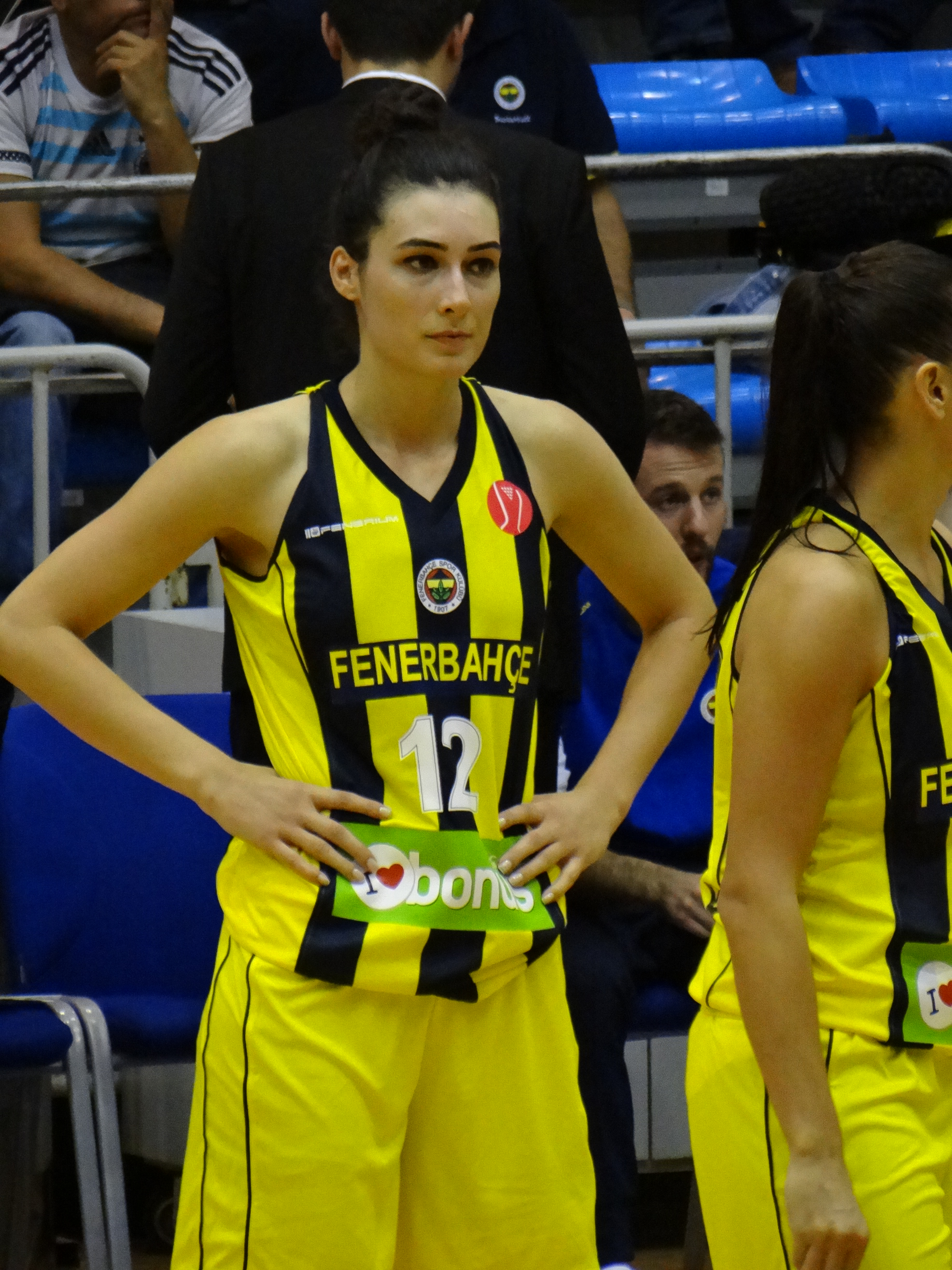 Fenerbahçe Women's Basketball vs BC Nadezhda Orenburg EuroLeague Women 20171011